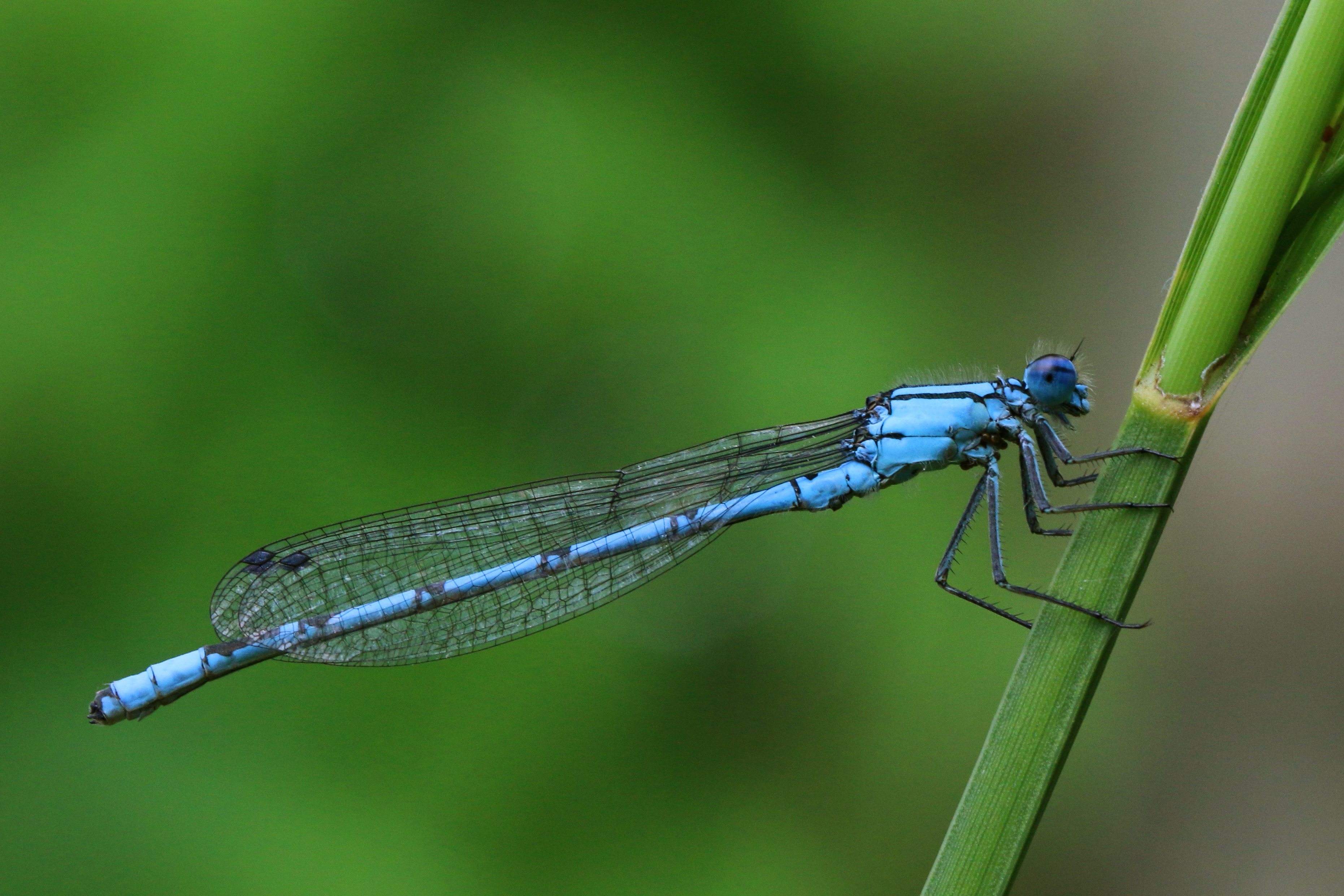 Common blue damselfly (Enallagma cyathigerum) male, Wolvercote Lakes, Oxford